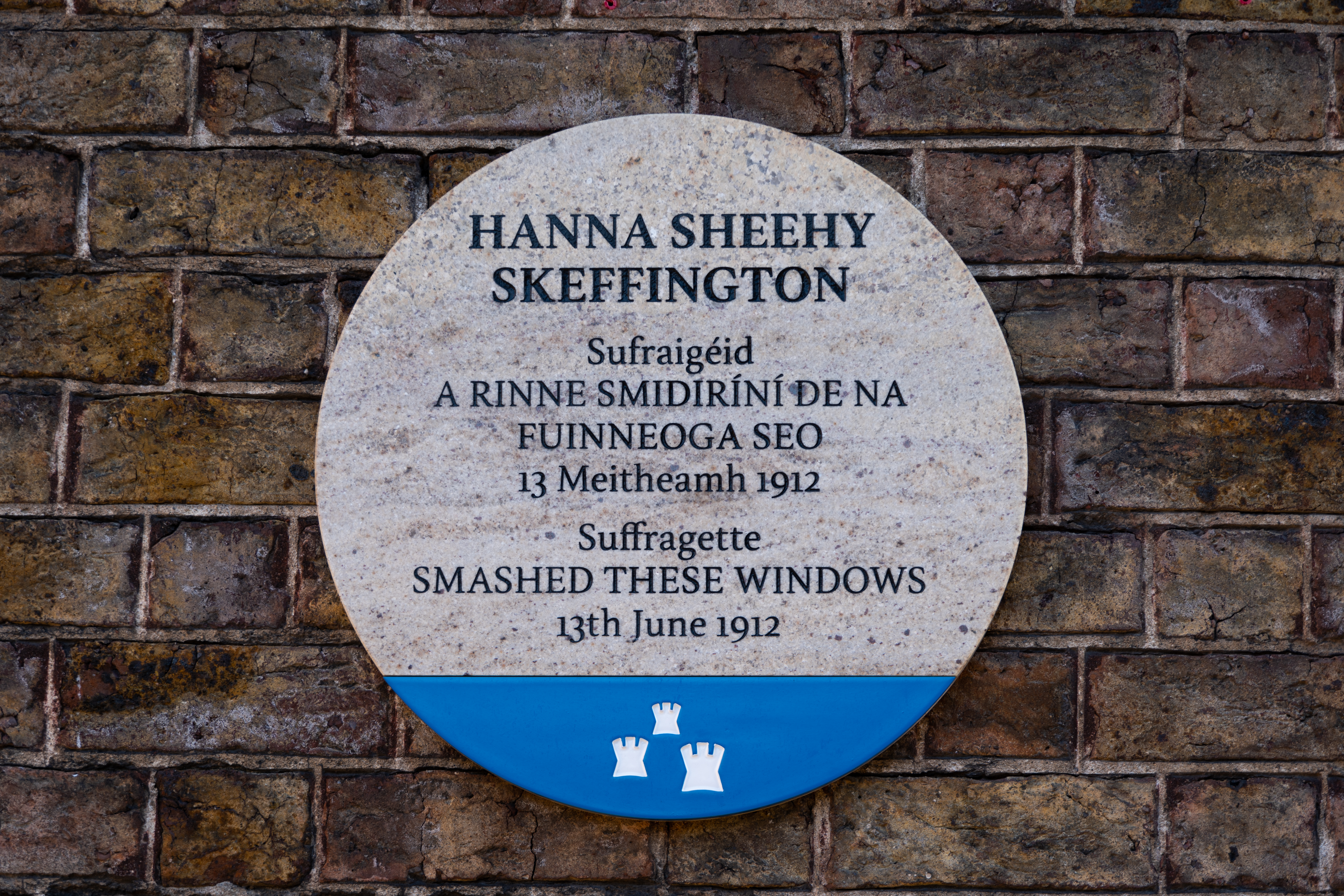 A Dublin City Council Commemorative plaque, unveiled on 13th June 2018, to commemorate the smashing of windows in Dublin Castle by Hanna Sheehey Skeffington, Suffragette.